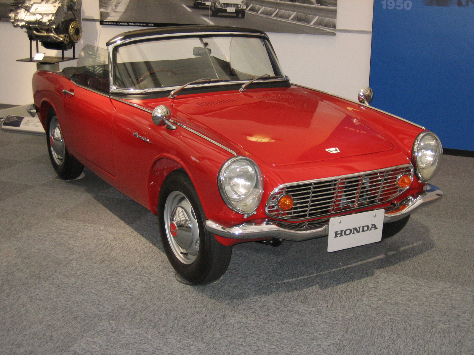 I photoed Honda S600 in the Honda collection hole.